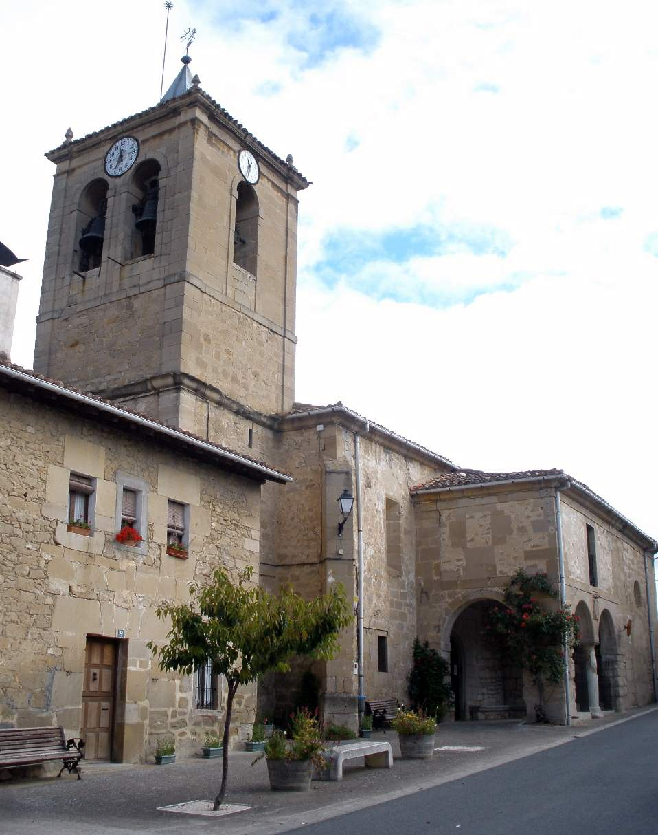 Iglesia de San Andrés, Armiñón (Álava)